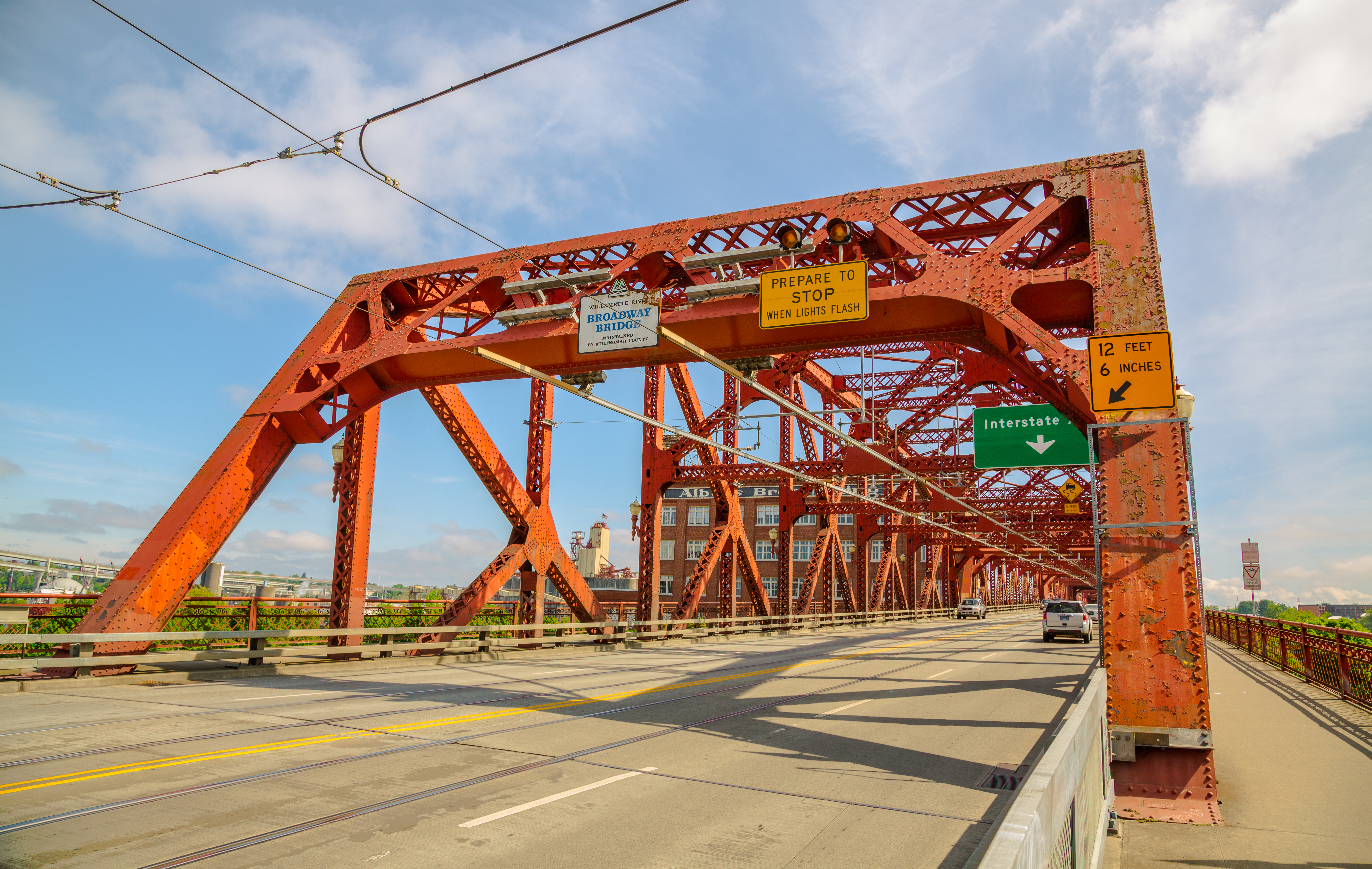 The west end of the Broadway Bridge, in Portland, Oregon